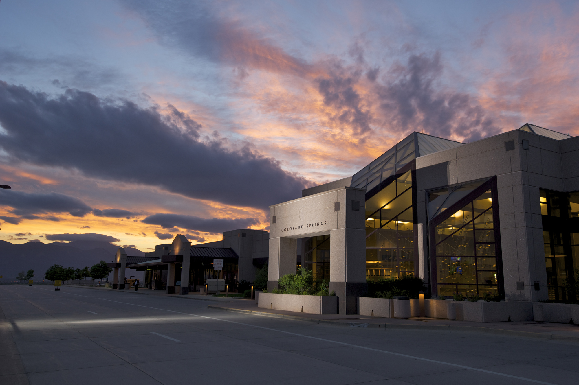 Colorado Springs Airport Terminal Building taken at dusk